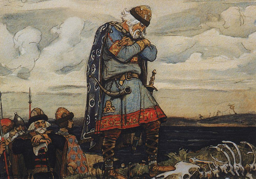 Oleg at his horse's remains. Illustration to "Lay of the wise Oleg" by A.S. Pushkin, State Literature Museum, Moscow